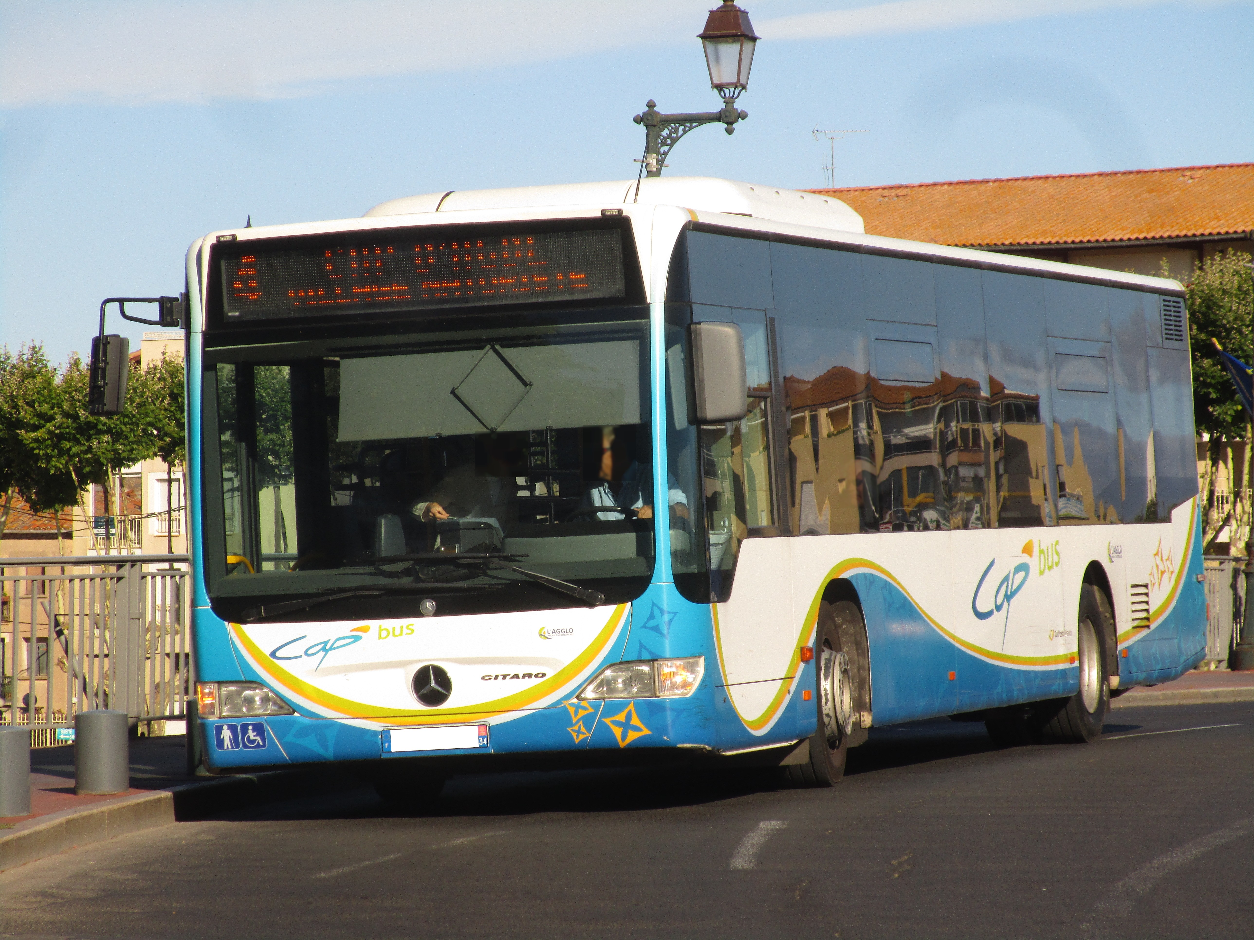 A Mercedes-Benz Citaro CI Facelift of Cap’Bus, on the line 4 (Gare, Agde↔Village Naturiste, Cap d’Agde), at the call Jean Jaurès — in Agde, France — on July 1, 2017.